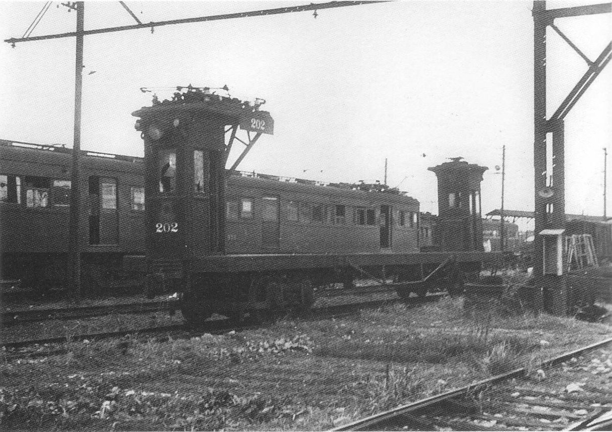 Hankyu Railway #202.